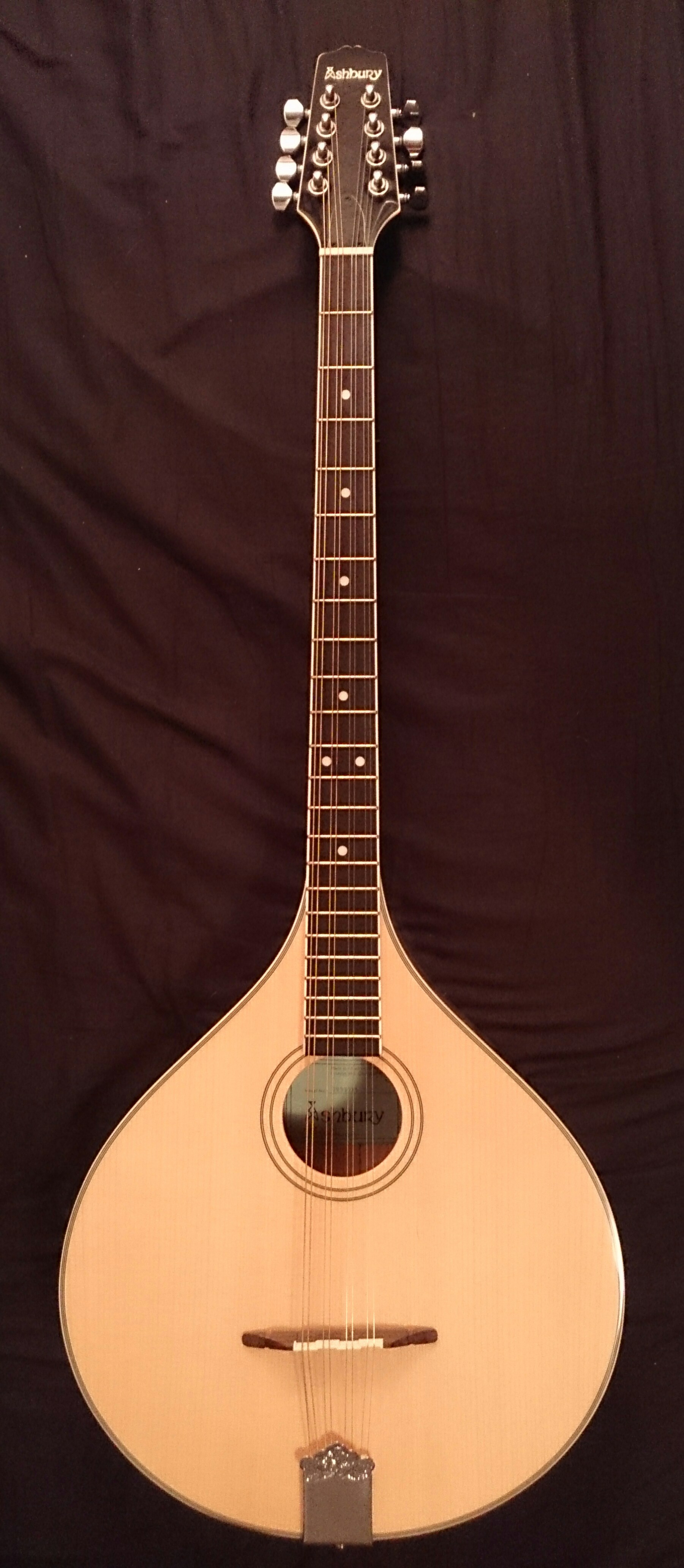 An Irish Bouzouki seen from the front with spruce top, maple body and neck and rosewood fingerboard. The overall body length is 953mm, the body width 343mm and the scale length 670mm. The instrument is manufactured by Ashbury.